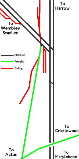 layout of Junction at Neasden